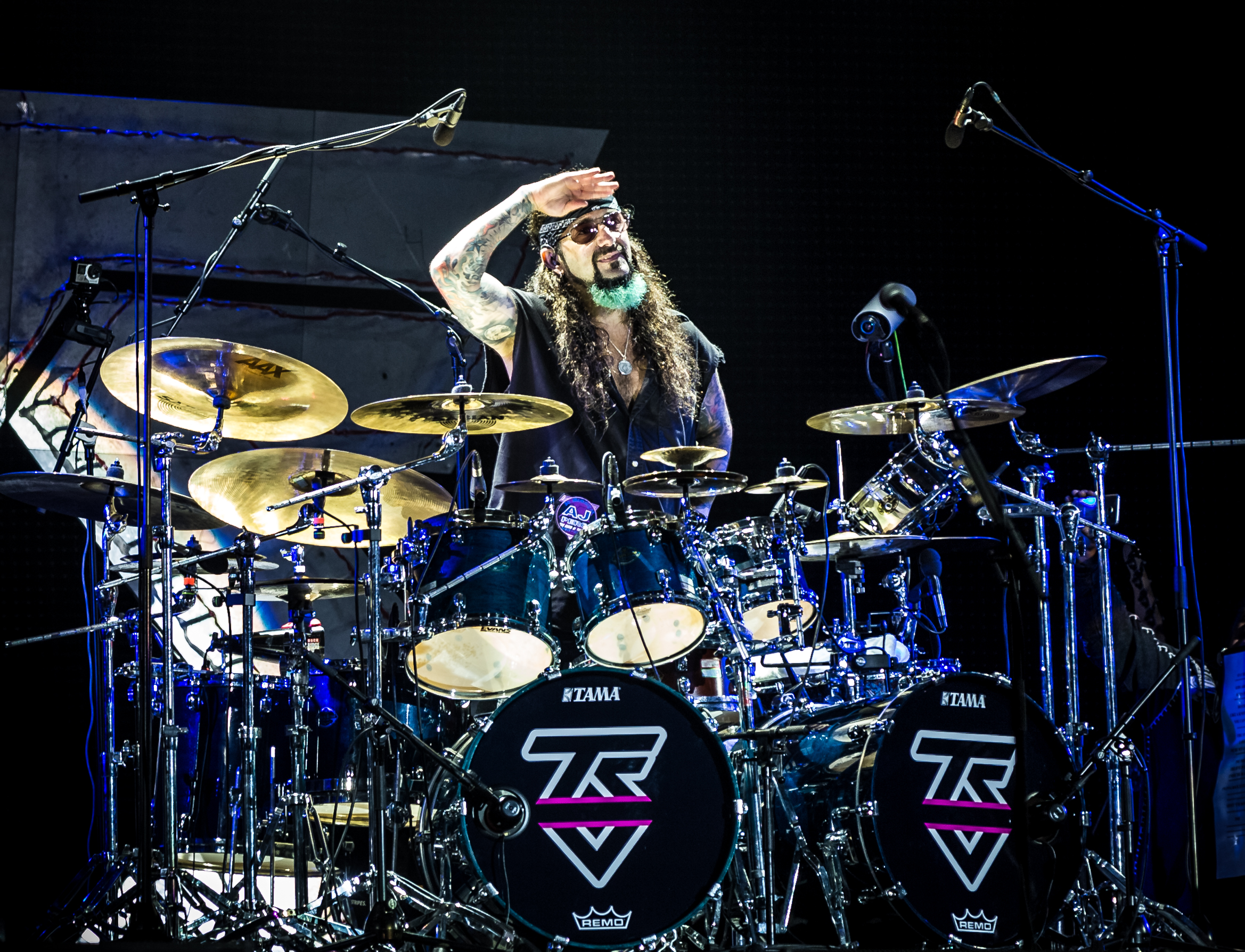 Twisted Sister - Wacken Open Air 2016